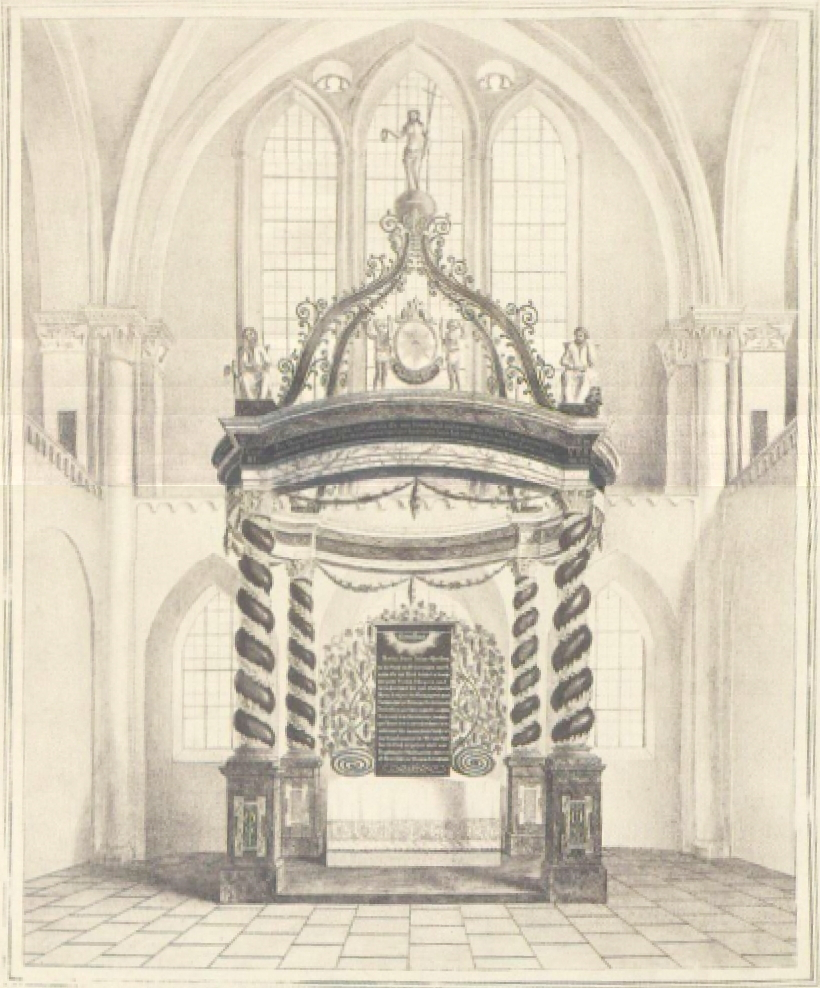 Choir of Bremen Cathedral in 1828, with the Baroque canopy altar